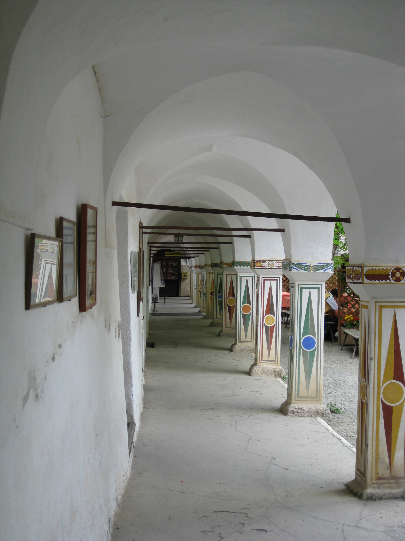 Hochosterwitz castle (slovenian: grad Ostrovica), castle in Carinthia state, Austria Courtyard